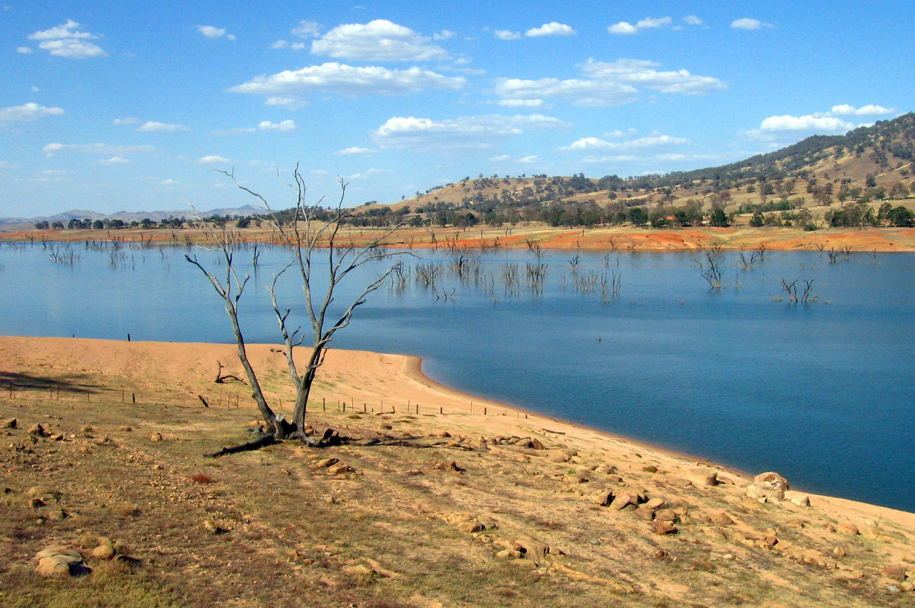 A low Lake Hume. Taken near Bethanga Bridge.